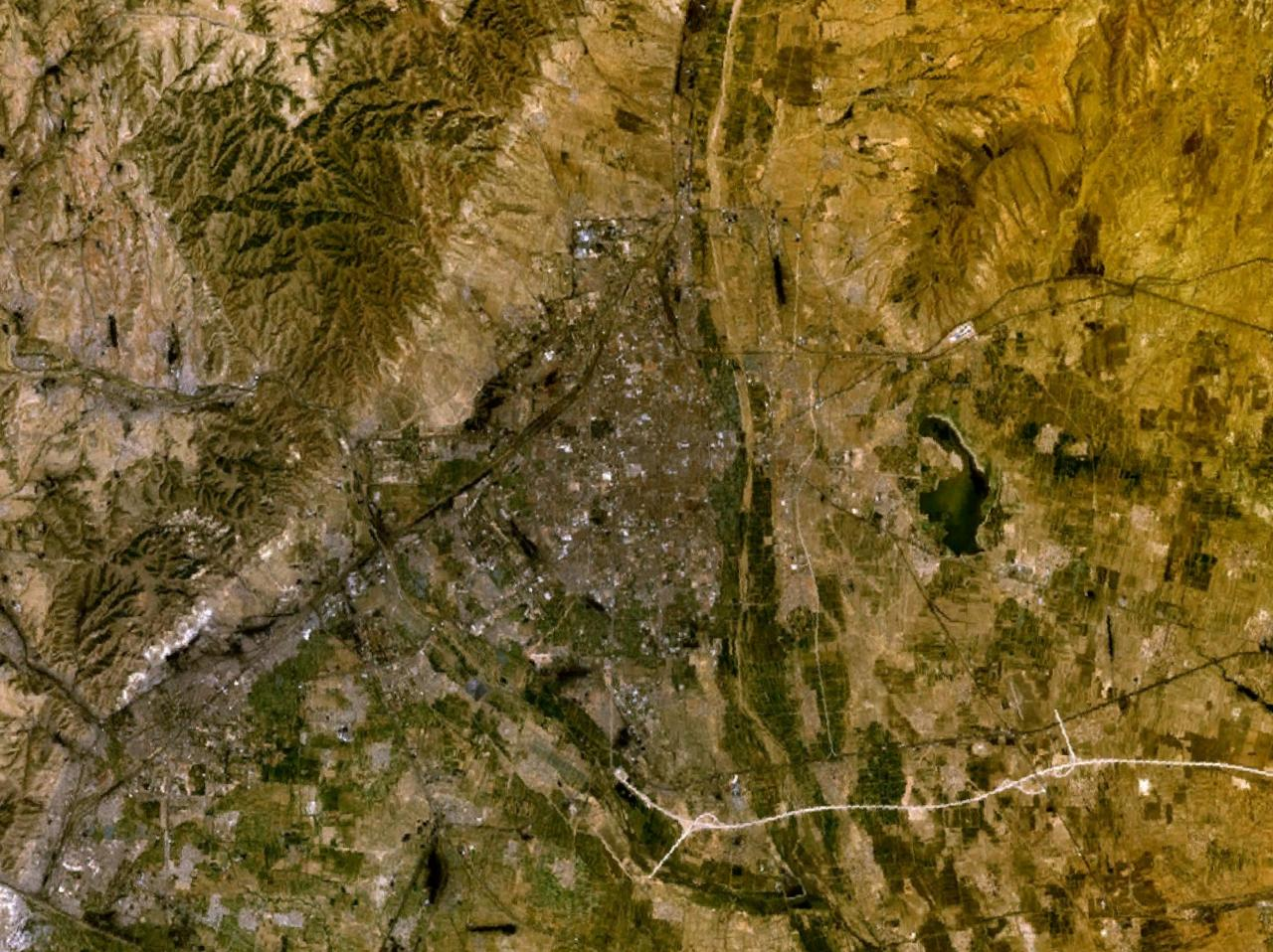 Datong, China